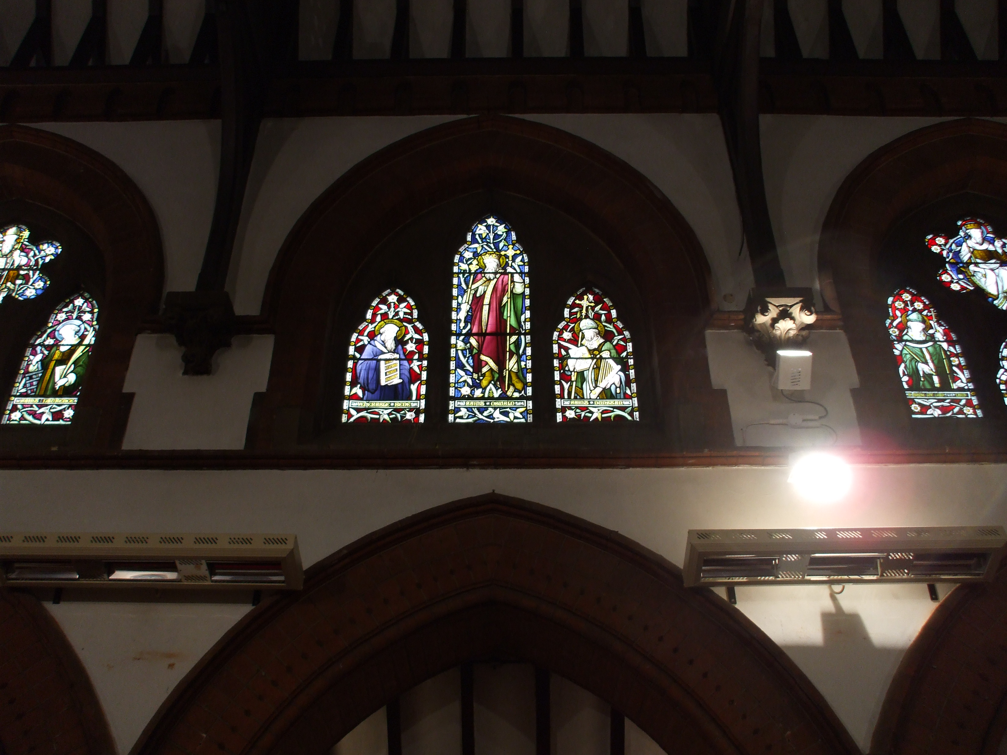 St Cyprians Hay Mills clerestory window showing Venerable Bede St Oswold and St St Dunstan